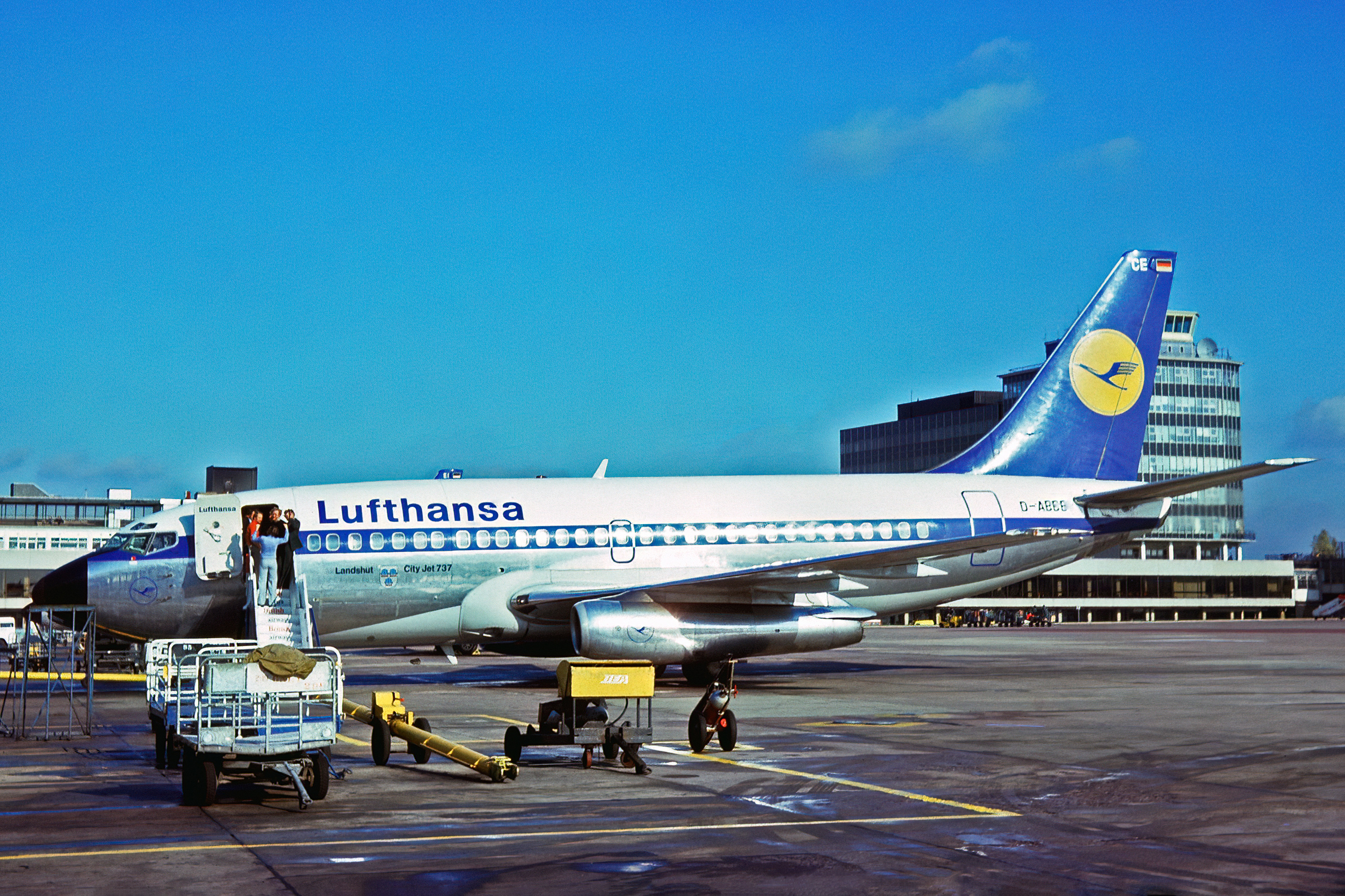 Landshut (here at Manchester airport in 1975), the very Lufthansa-aircraft hijacked to Mogadishu on 13th October 1977 as Flight LH 181 from Palma de Mallorca to Frankfurt / Main. Later stormed by GSG 9. All 86 passengers and four crew members were rescued. Three of the four terrorists were killed during the storming.